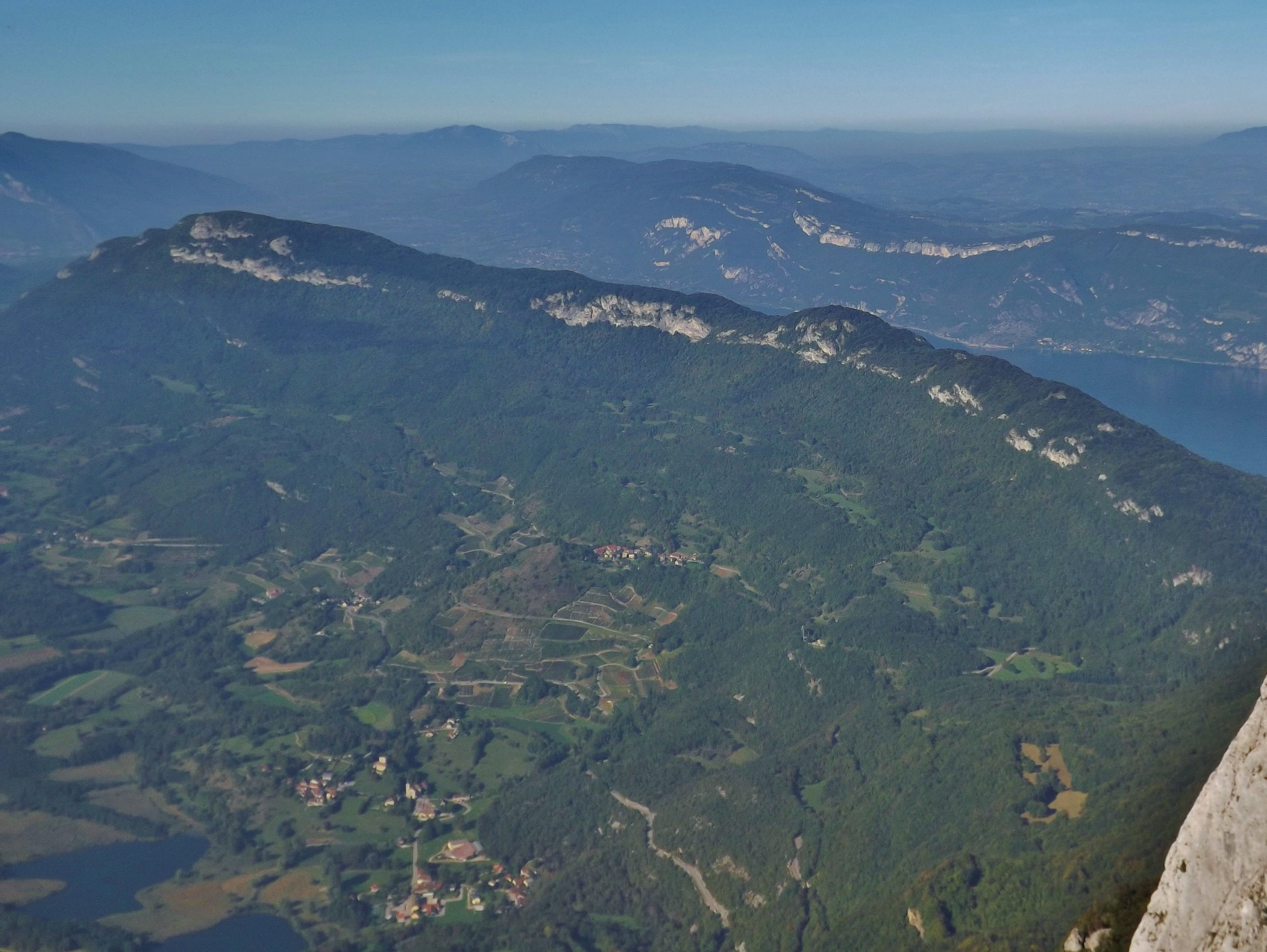 Sight of the mont de la Charvaz mountain, in Savoie, France.